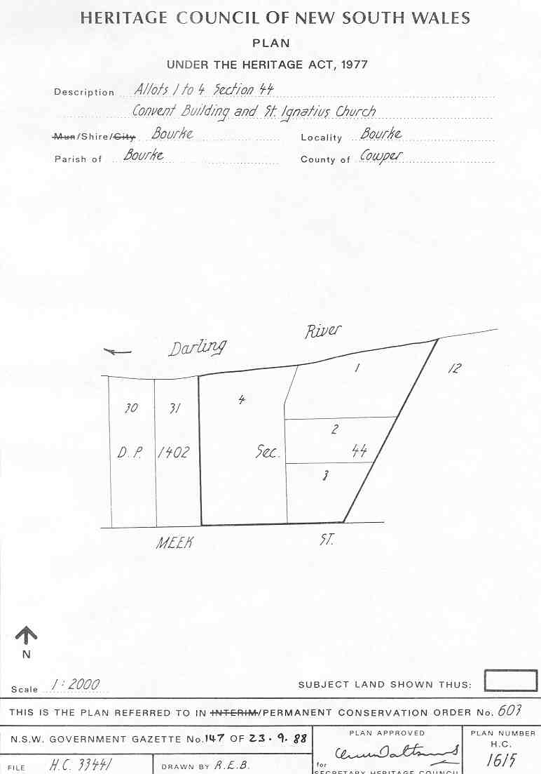 St Ignatius Roman Catholic Church and Convent, Bourke: PCO Plan Number 603